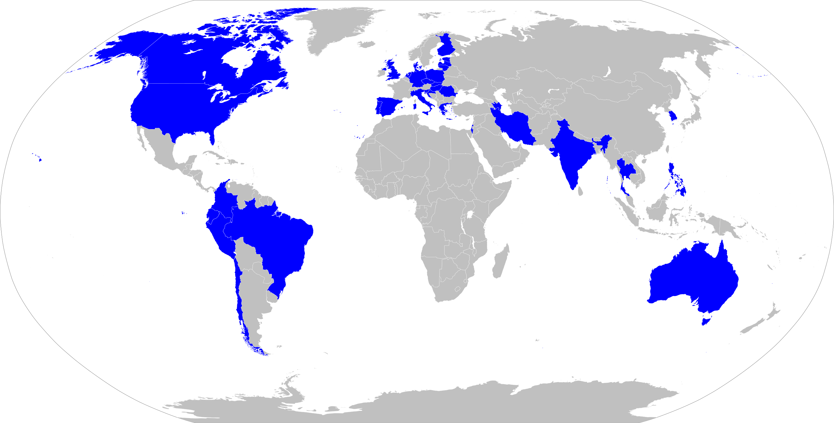 Map with Spike operators in blue